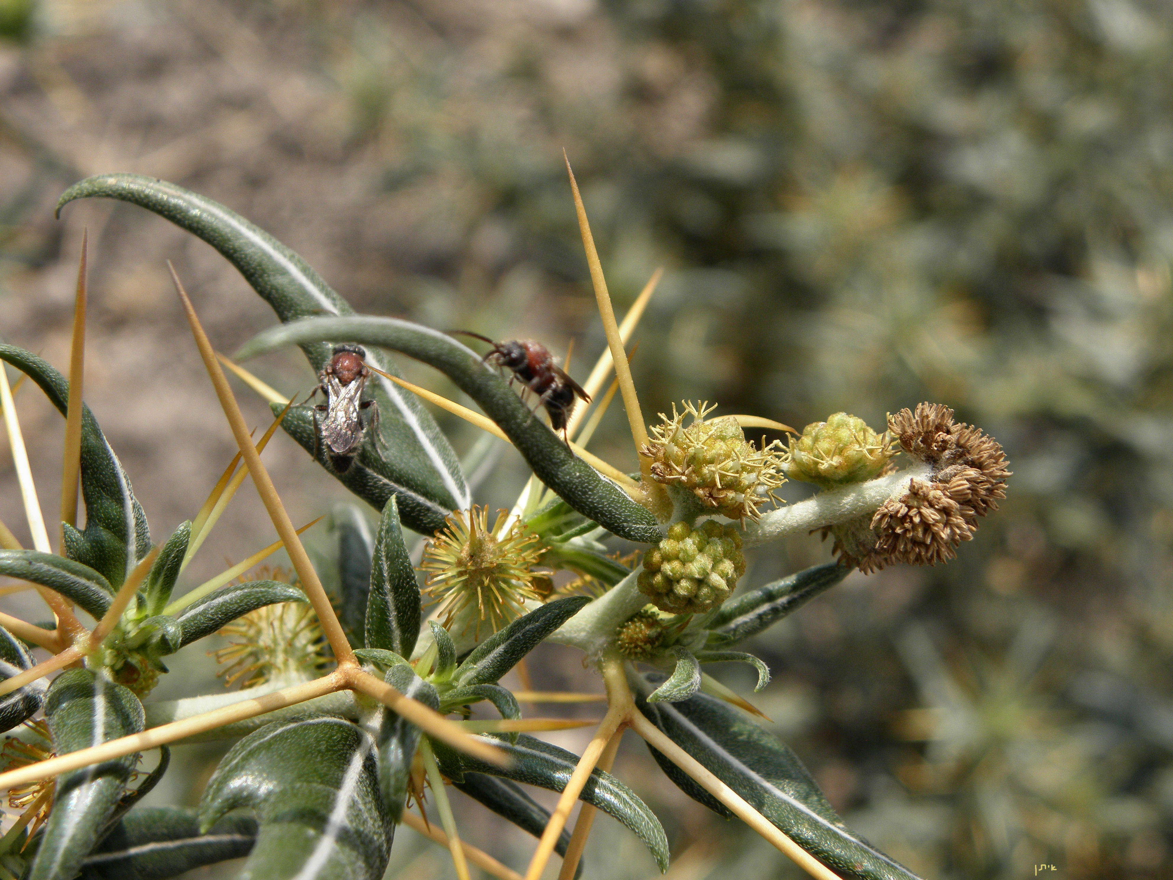 Xanthium spinosum - the staminate (male) flowers on the right Daggerweed לכיד קוצני - פרחים אבקניים מימין. נחל השופט